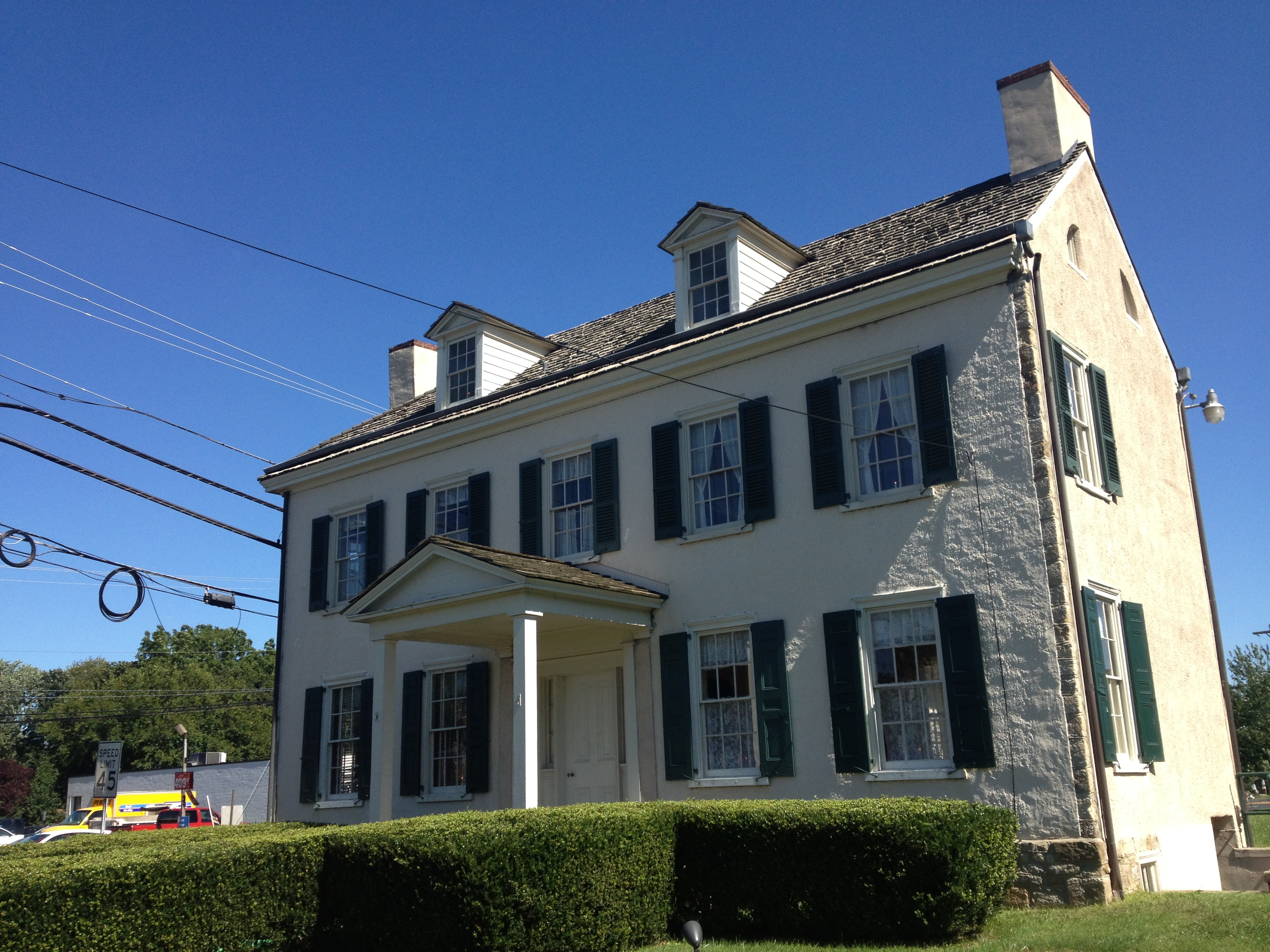 A view of Craven Hall in Warminster Township, Pennsylvania